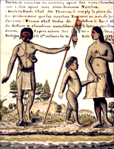 Water color painting by Alexandre de Batz. Tunica chief Bride le Bouefs painted for war and holding scalps.